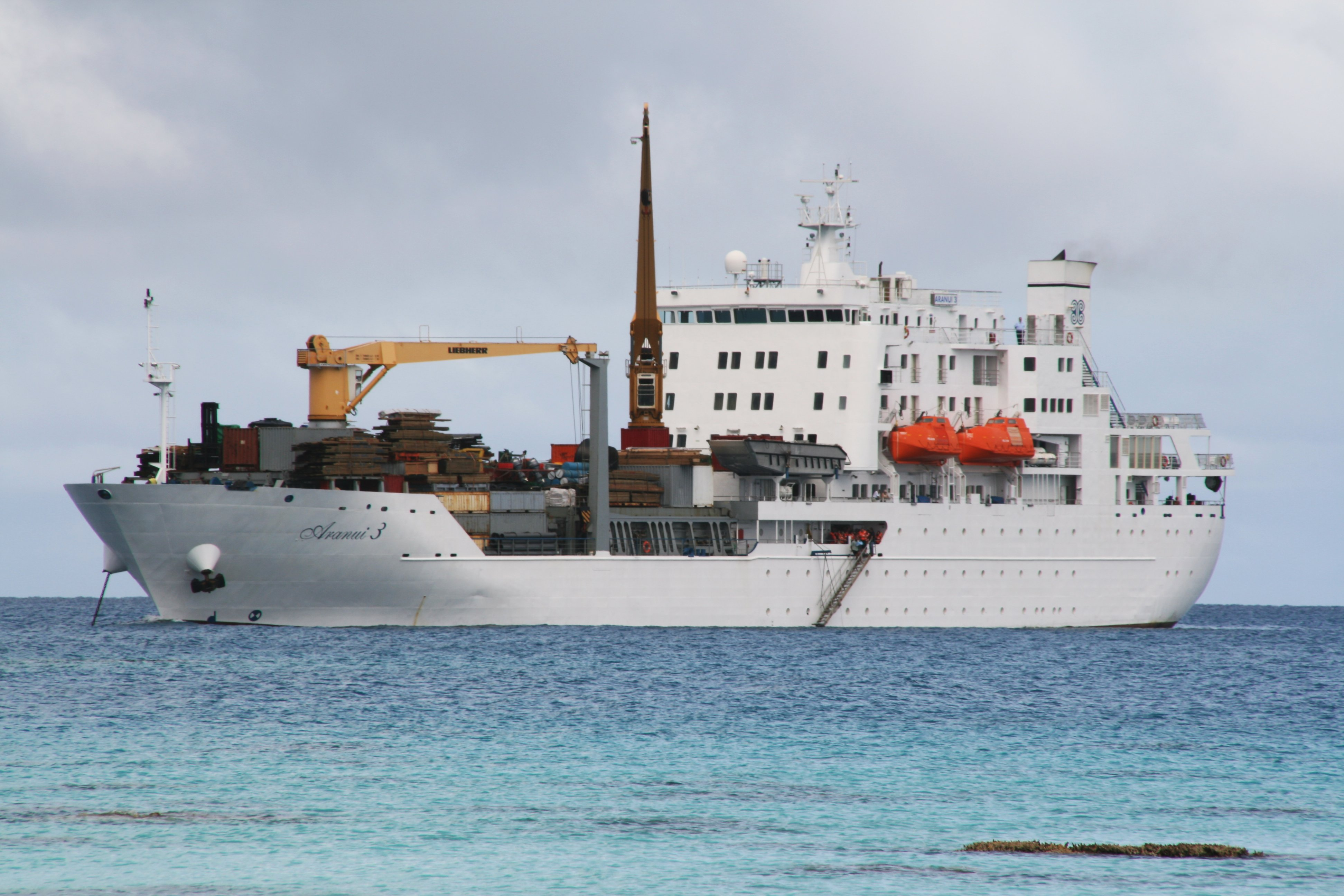 The mixed passenger/cargo ship Aranui 3, in the Fakarava lagoon (Tuamotus). It operates between Tahiti and Marquesas Islands.